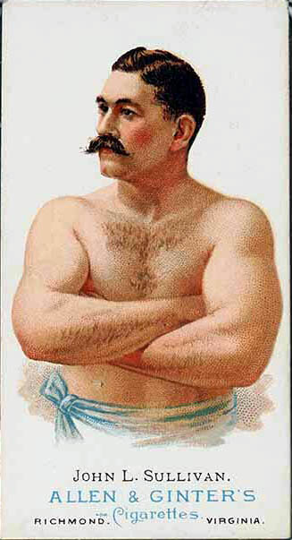 Cigarette Advertising Card produced by Allen and Ginters. John L. Sullivan, boxer was considered to be the link between bare knuckles and glove fighting. Considered to be one of the best heavyweights ever. Sullivan was elected to the International Boxing Hall Of Fame in 1990.